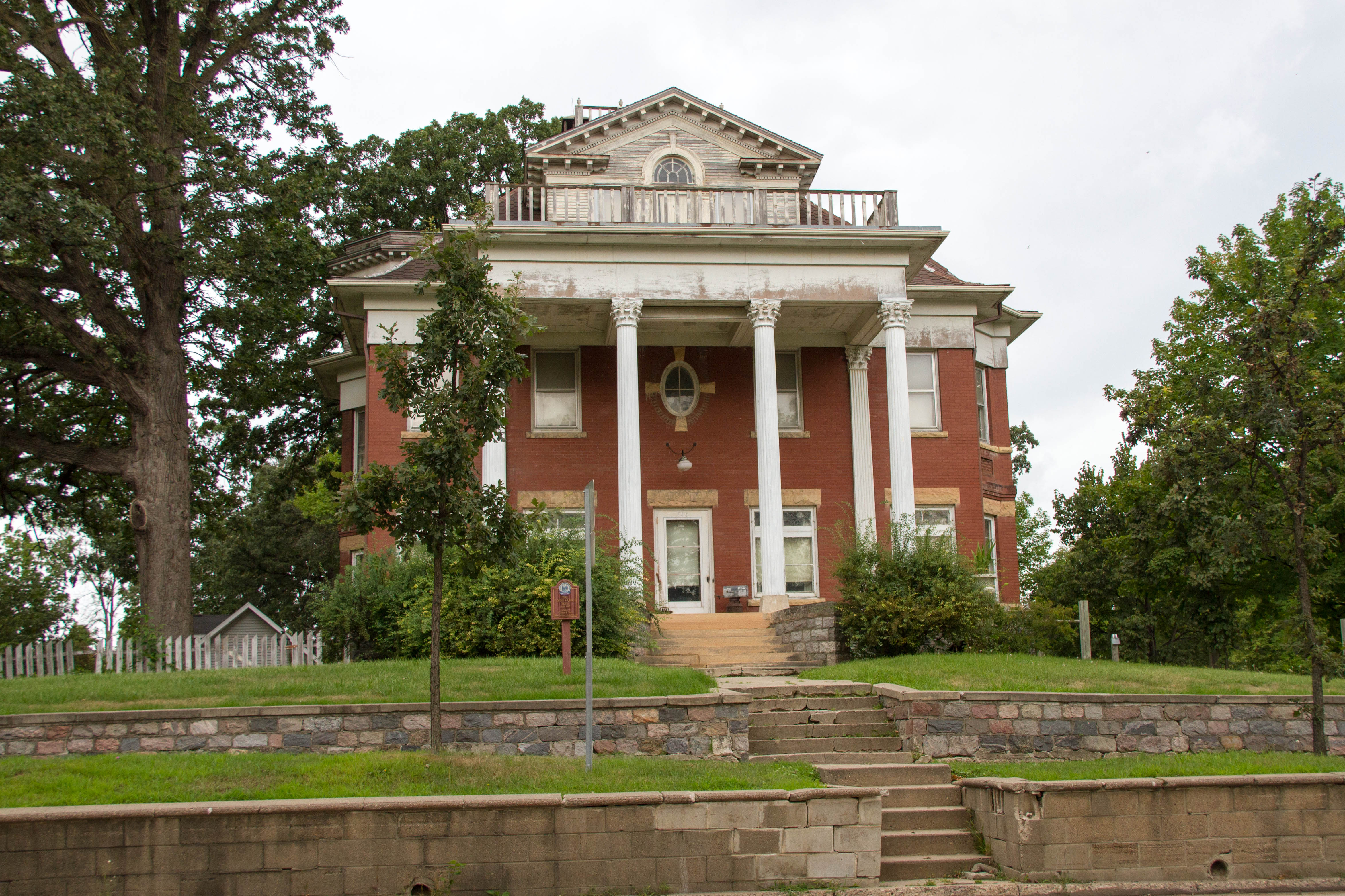 The Adam's and Quast House (1902), a historic home in Hutchinson, Minnesota, USA.